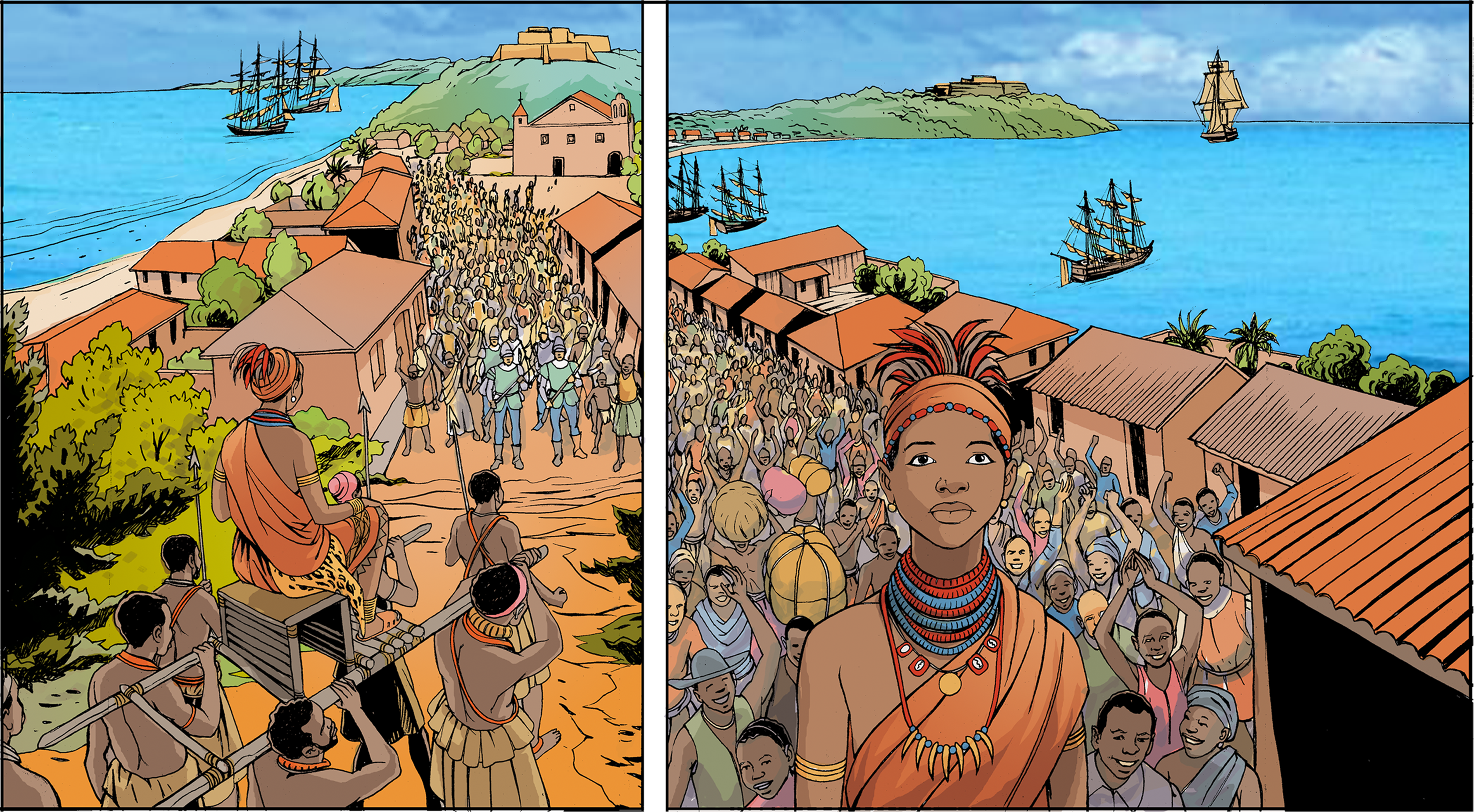 Taken from Nzinga of Ndongo and Matamba from the UNESCO series on women in African history. Illustrations by Pat Masioni